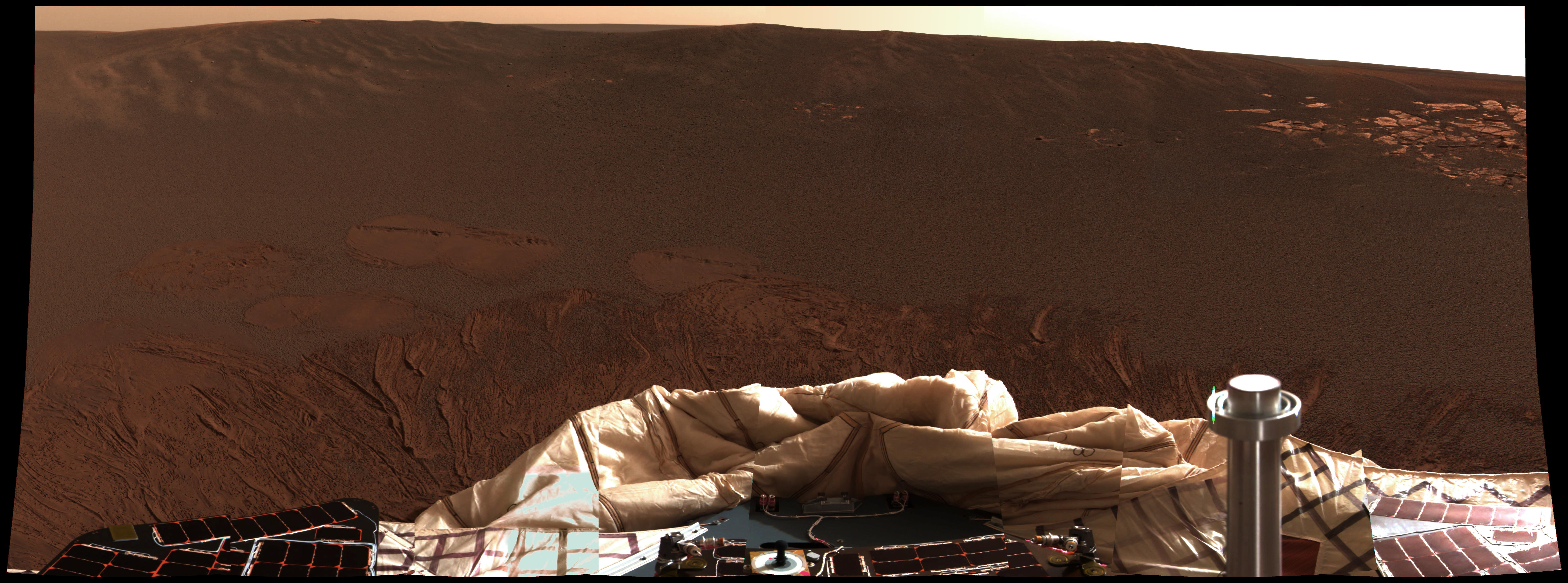 The interior of a crater surrounding the Mars Exploration Rover Opportunity at Meridiani Planum on Mars can be seen in this color image from the rover's panoramic camera. This is the darkest landing site ever visited by a spacecraft on Mars. The rim of the crater is approximately 10 meters (32 feet) from the rover. The crater is estimated to be 20 meters (65 feet) in diameter. Scientists are intrigued by the abundance of rock outcrops dispersed throughout the crater, as well as the crater's soil, which appears to be a mixture of coarse gray grains and fine reddish grains. Data taken from the camera's near-infrared, green and blue filters were combined to create this approximate true color picture, taken on the first day of Opportunity's journey. The view is to the west-southwest of the rover.